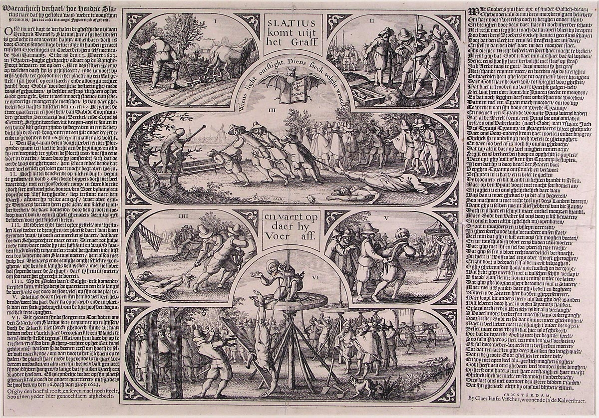 Retrieval of the buried and hidden corpse of Slatius in 1623. Etching and paper. 268 × 230 mm. Rotterdam, Prentenkabinet Museum Boijmans Van Beuningen (inv.no. BdH 13996 (PK)).